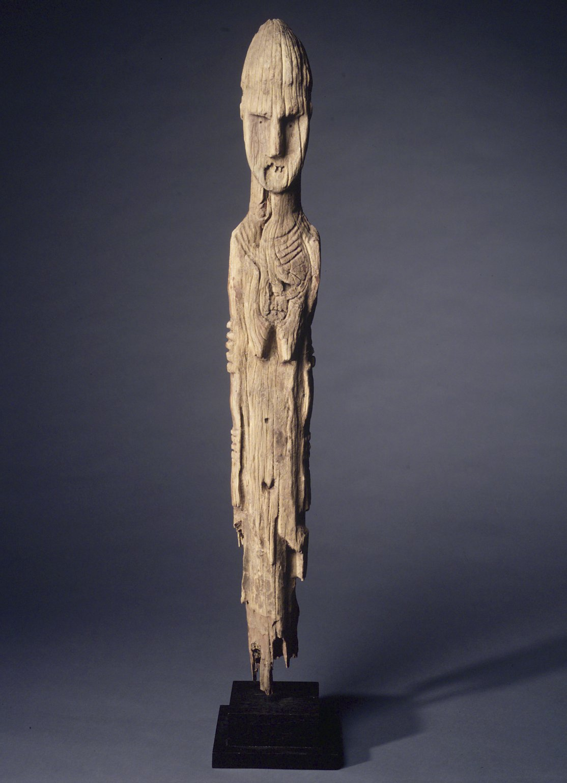 Standing female figure with pendulous breasts, arms held rigidly to sides. Figure has domed coiffure with curvilinear design, small sunken eyes, two inset teeth, a carved multi-strand necklace, and carved armbands. There are areas of red-ochre pigment, a finely worn surface, and old patina. Condition: Overall good; heavily eroded from weathering.